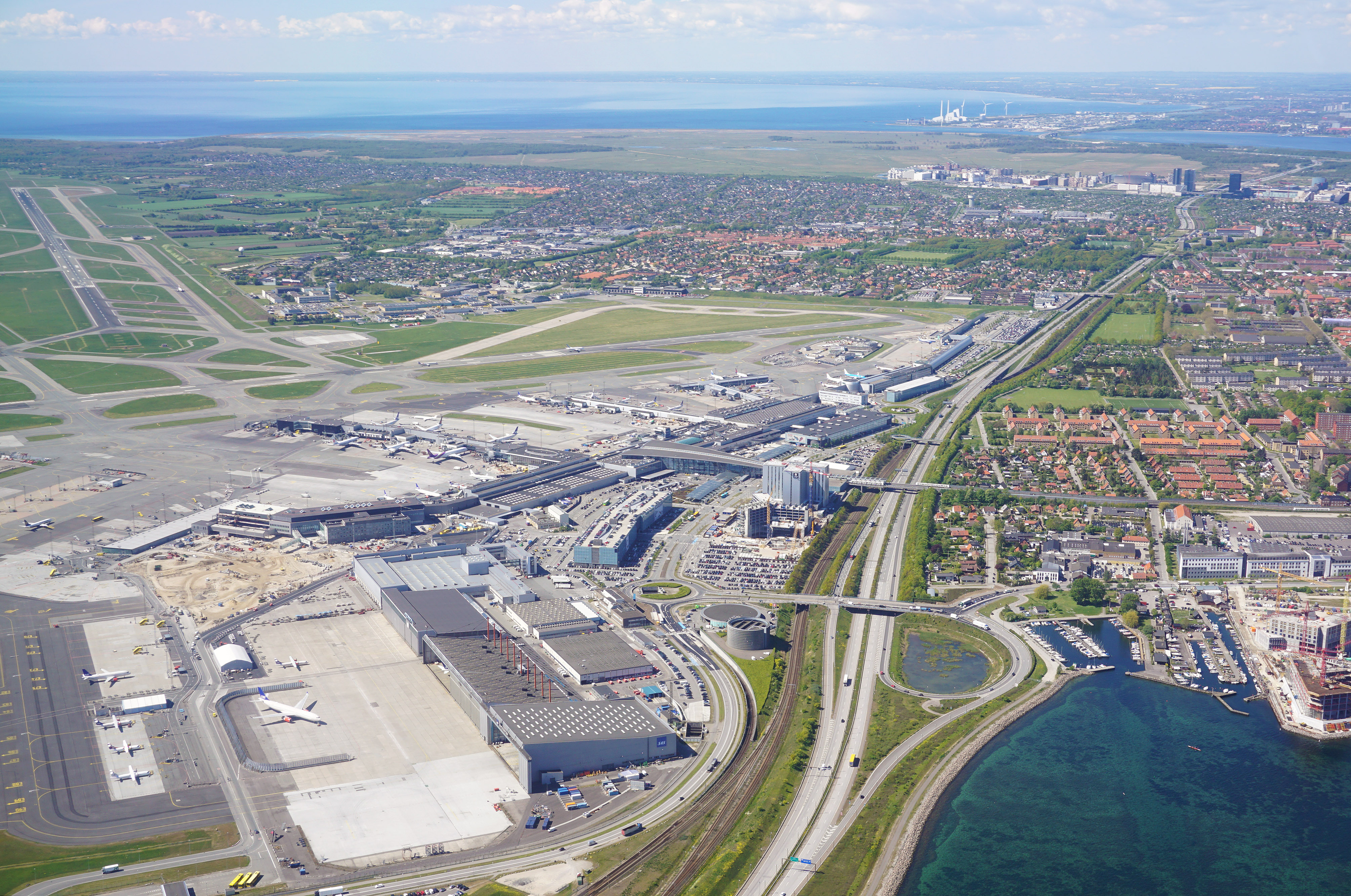 Aerial photograph of Copenhagen Airport.